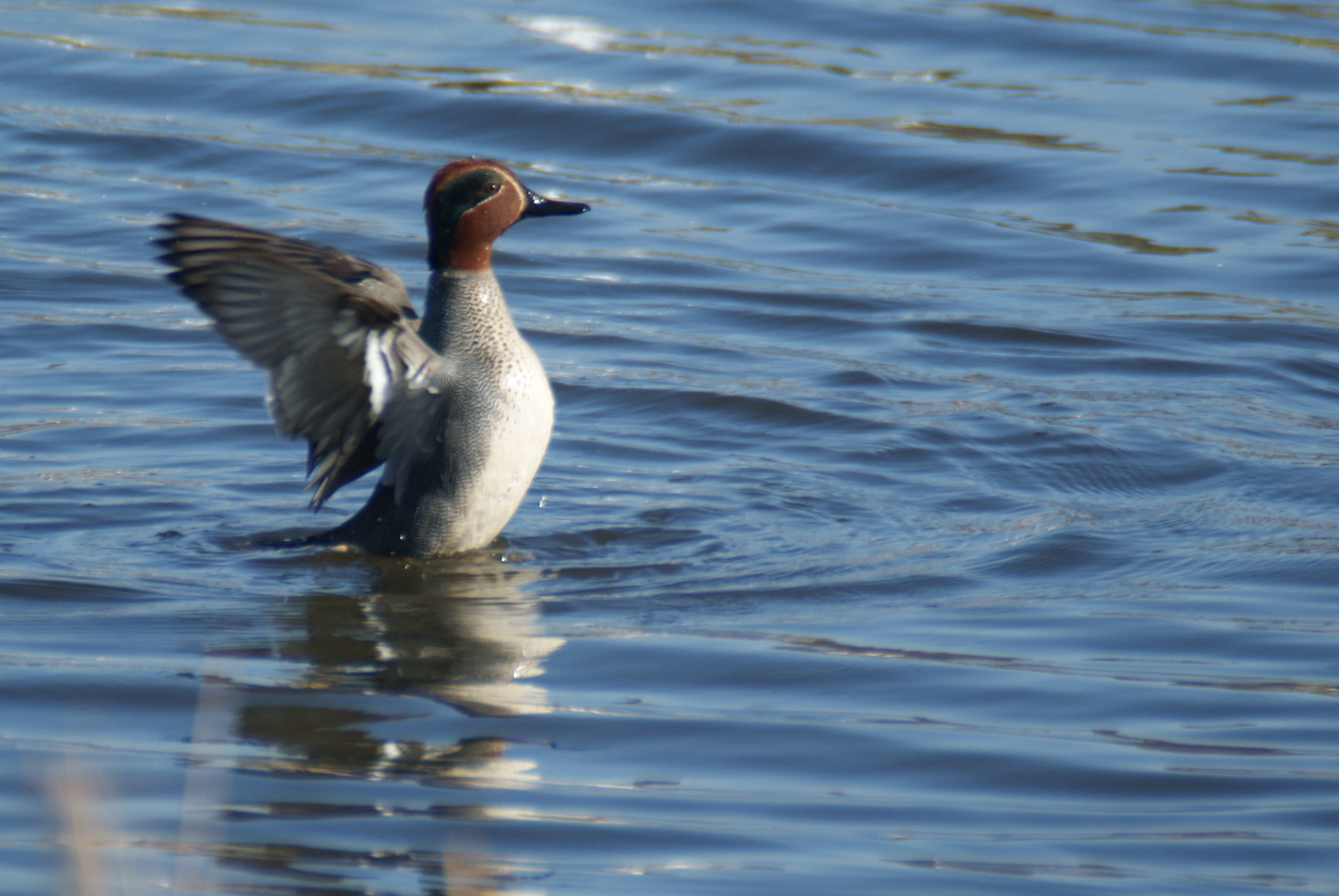 Teal Anas crecca. At the Grisedale hide, Leighton Moss, Yealand Redmayne, England